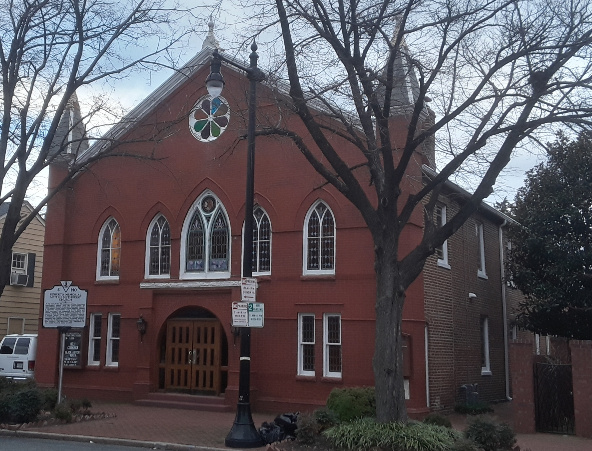 Roberts Memorial UMC, Alexandria, Virginia